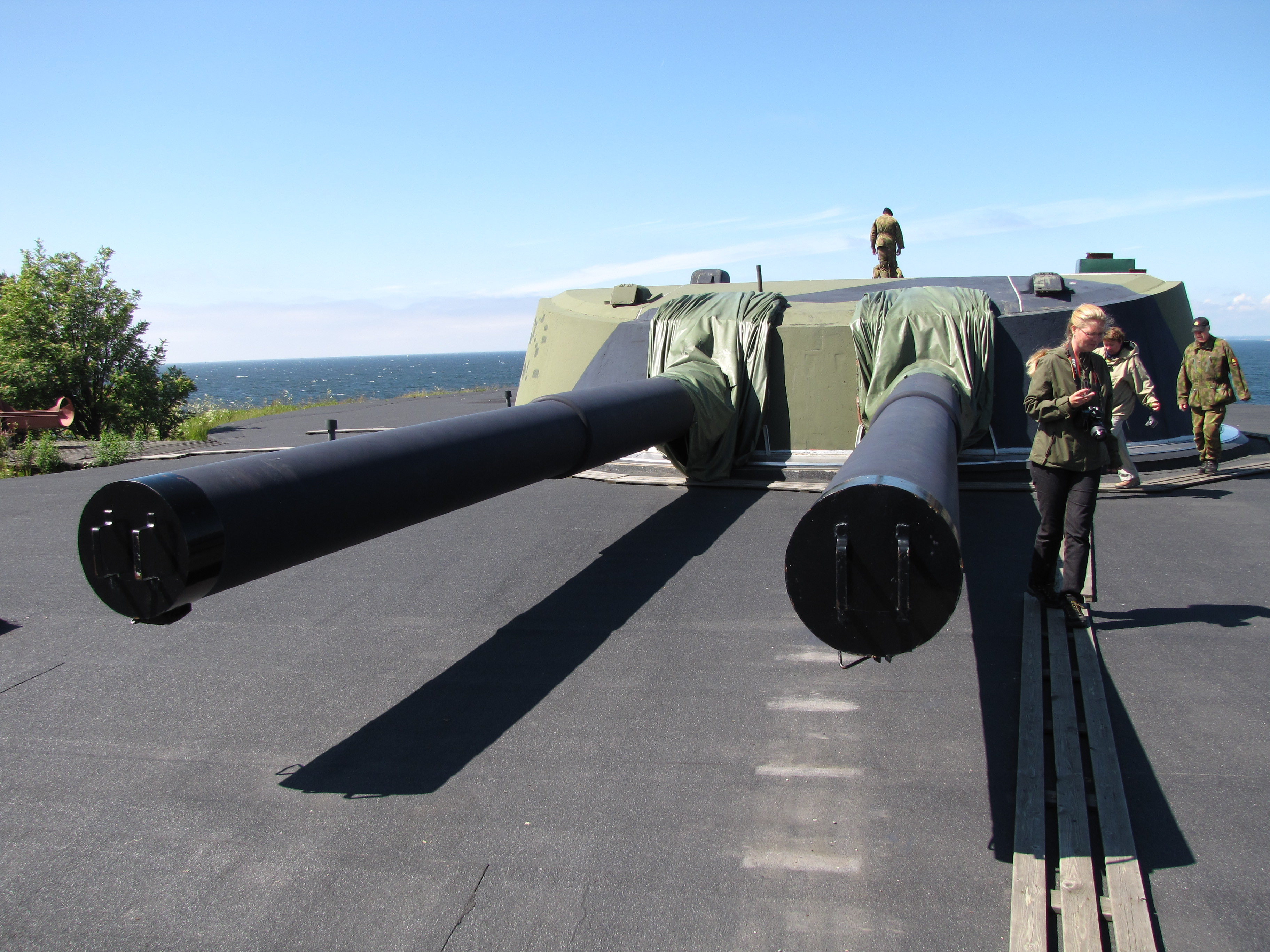 305 mm 52 caliber twin coastal artillery turret in Kuivasaari. This turret was constructed by Finns between 1931 and 1934 by using 305 mm (12 inch) guns from Ino and a 356 mm (14 inch) twin turret barbette and other parts transported from Mäkiluoto.